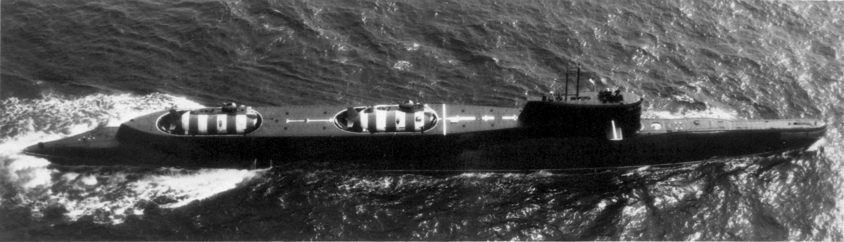 Details: ID: DNSN8600734 Service Depicted: Other Service An aerial starboard beam view of a Soviet India class auxiliary submarine underway. Note the two deep submersible vehicles located aft of the sail. Date Shot: 1 Oct 1985